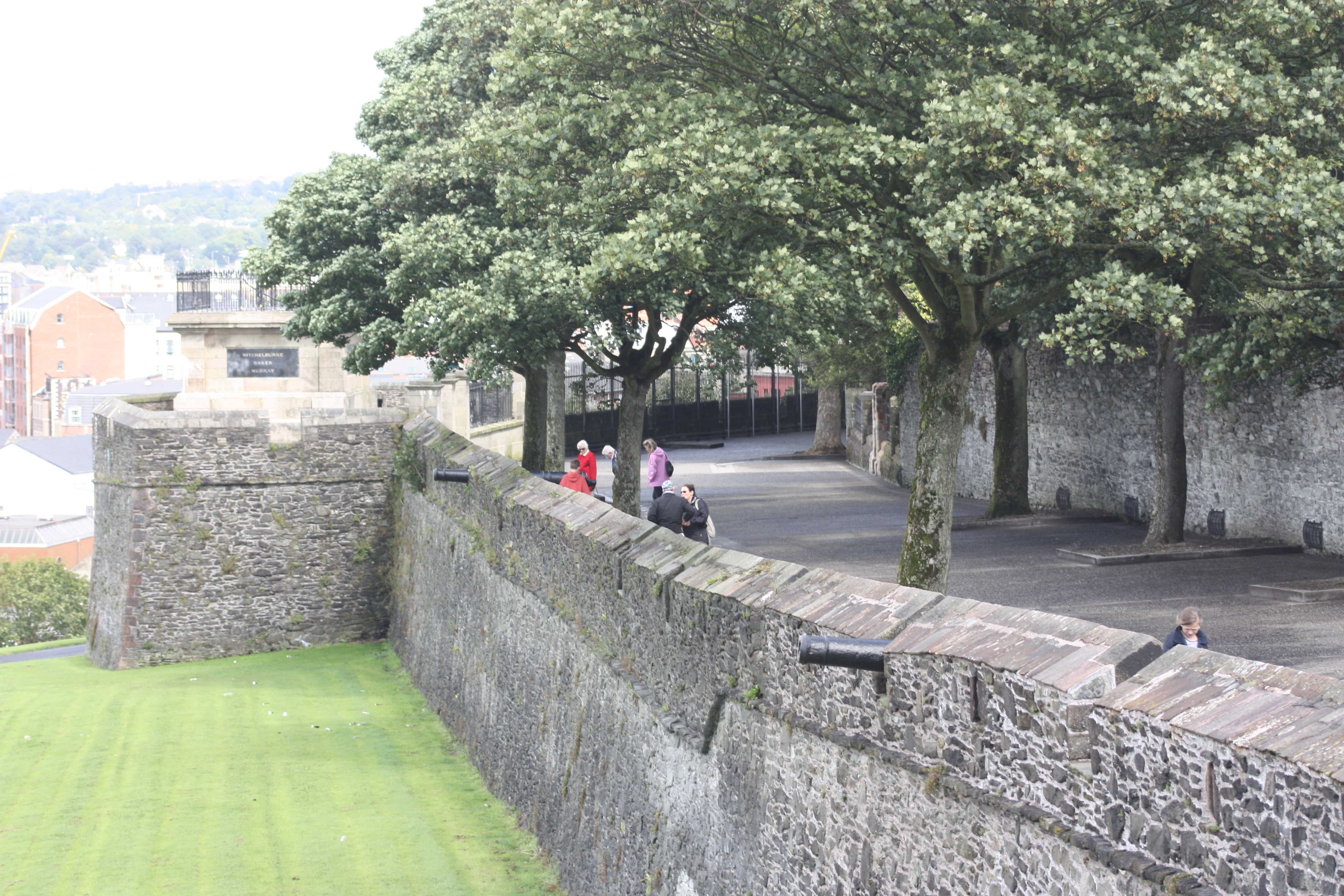 Walls of Derry, Derry, County Londonderry, Northern Ireland, August 2009